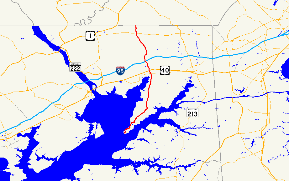 Map of Maryland Route 272